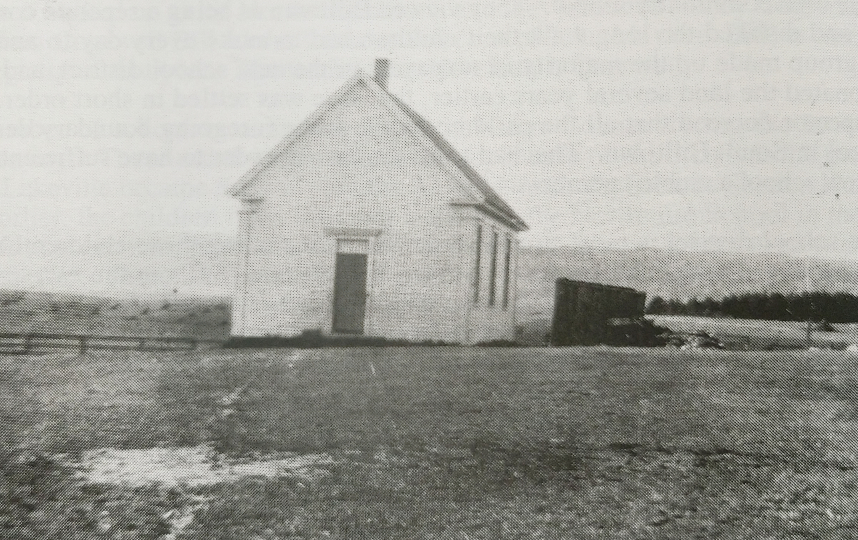 Photo of the South Billtown School, a single room schoolhouse typical of the area at the time